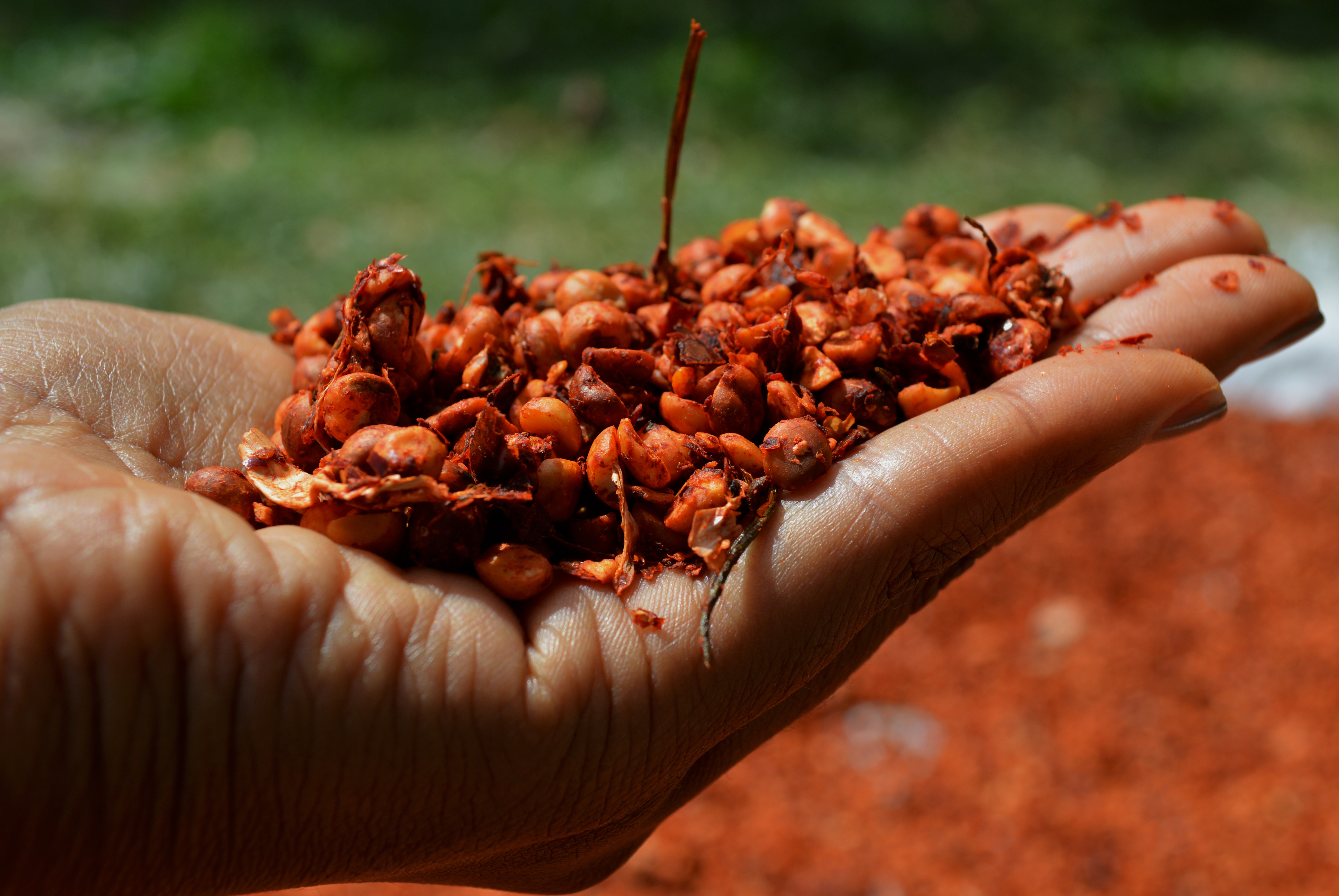 This is the first process of preparing the famous Ethiopian meal 'Shiro'! I took this picture while my mum was preparing the flour for the 'shiro watt' at home!